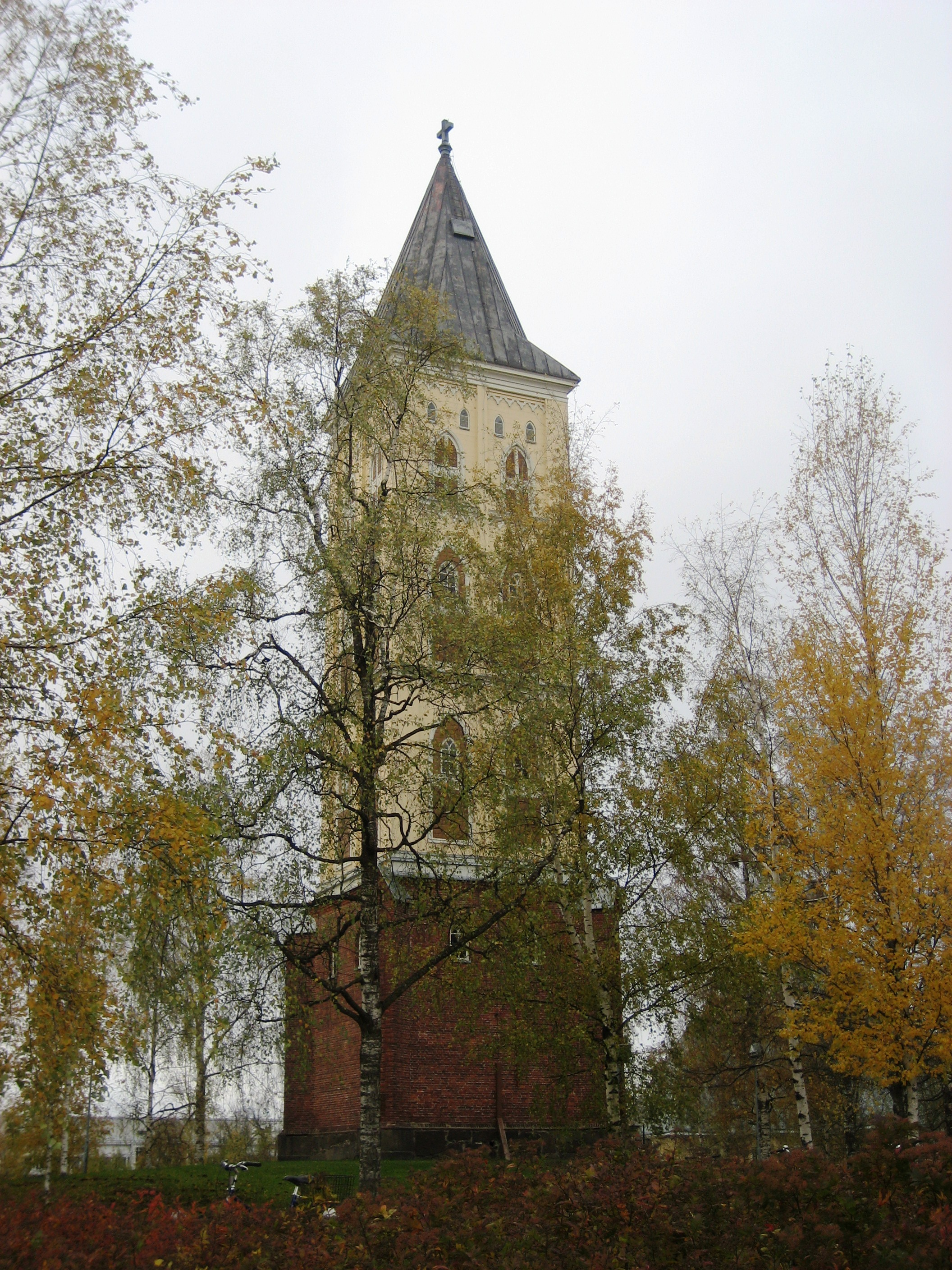 Belfry of the Lappee Maria Church in Lappeenranta, Finland. Built in 1856.